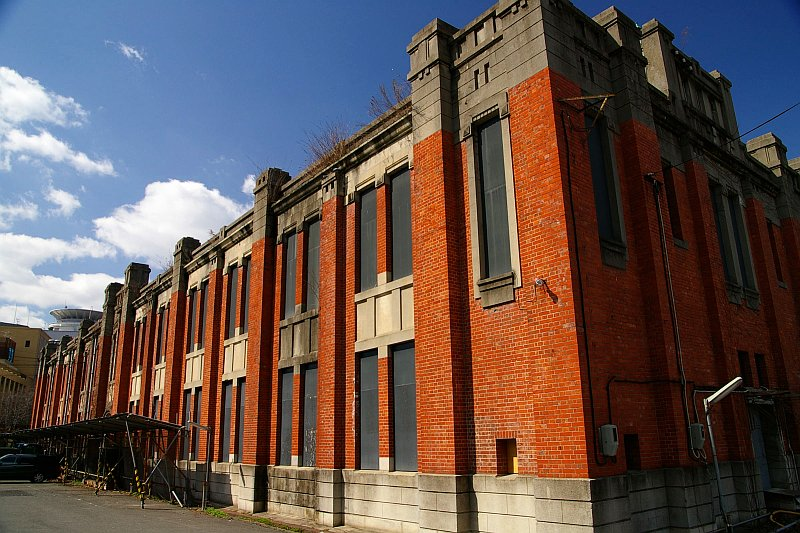 Ruin of Chemical Labo, Imperial Arsenal Works Osaka.